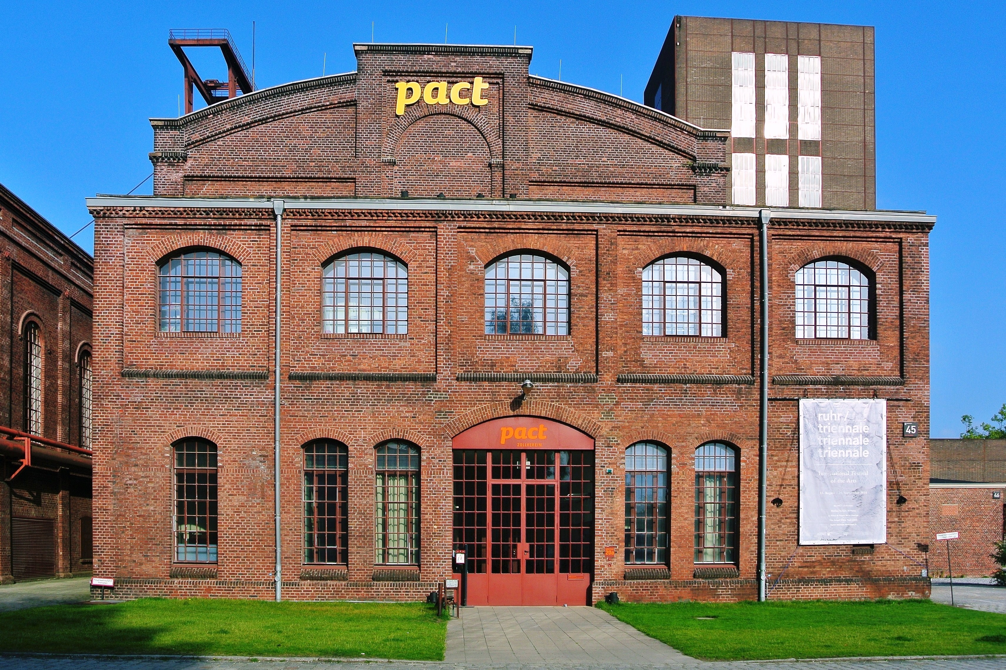 zollverein-shaft 1/2/8